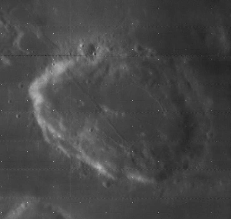 Goclenius, on the moon.